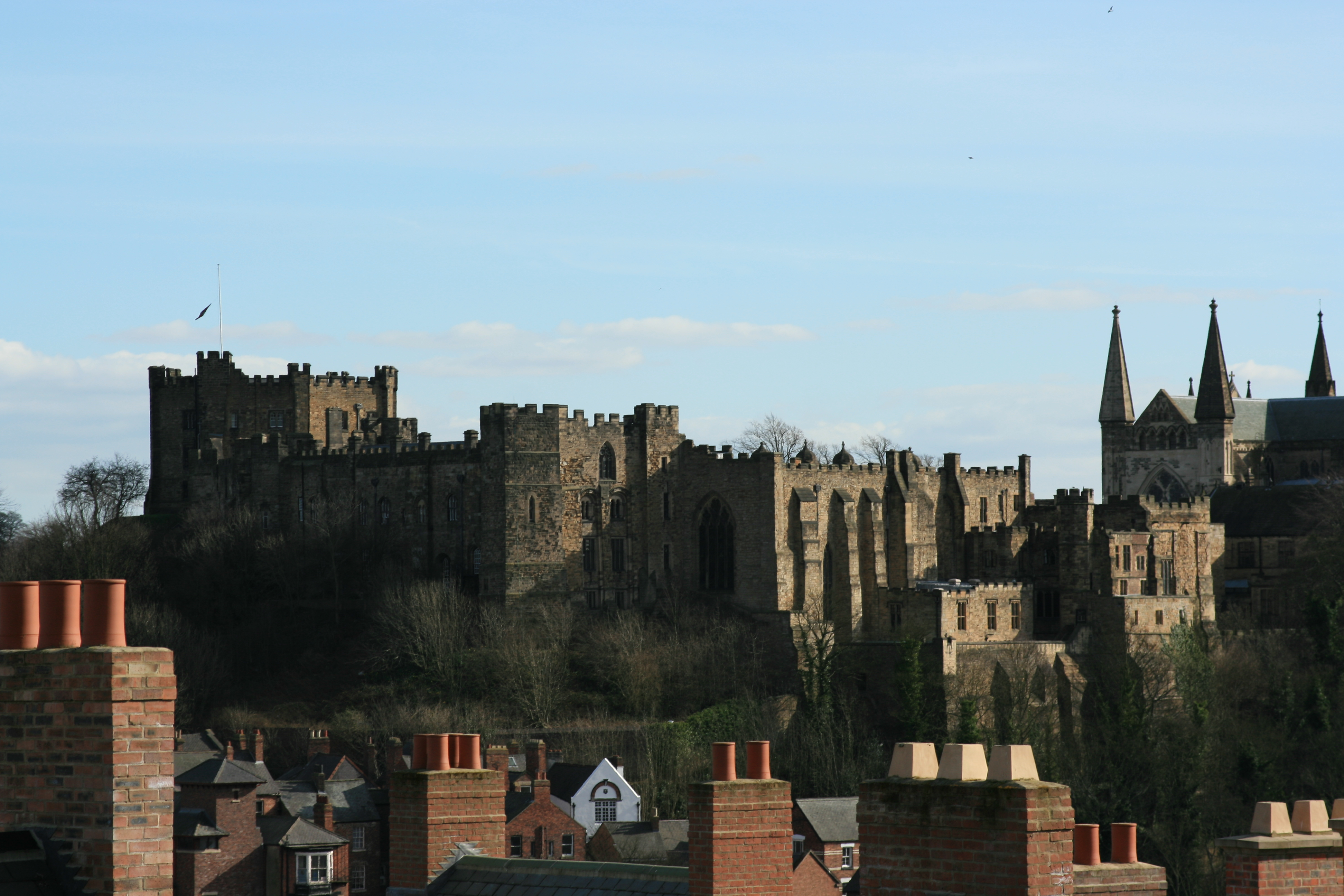 Photos of Durham Castle and Cathedral